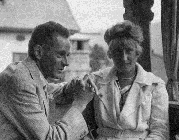 Egon Schiele und Edith Harms